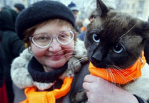 Woman with cat in Kiev during Orange Revolution (november 2004)